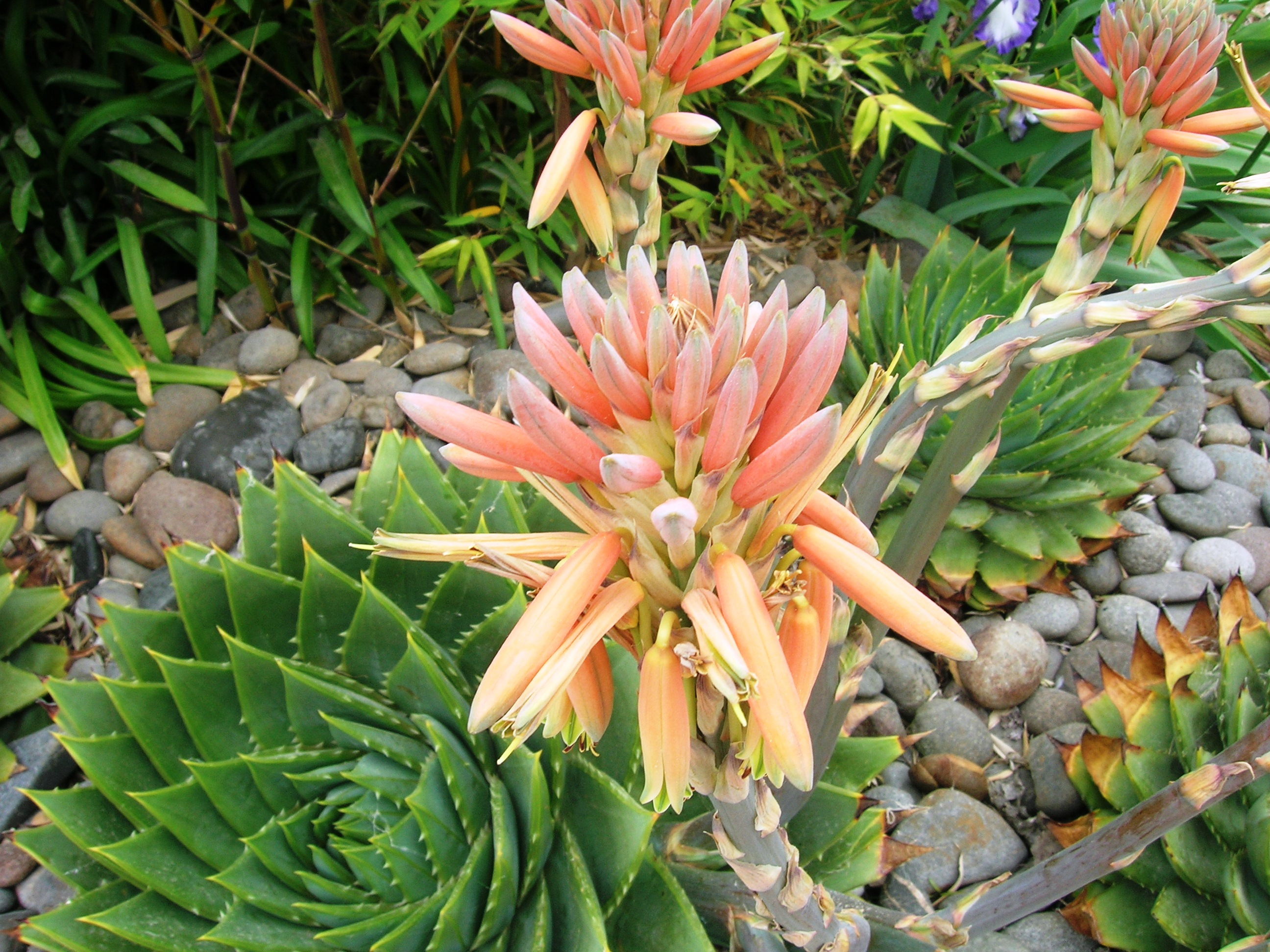 Aloe polyphylla (I think) in flower Asphodelaceae Also placed in: Aloaceae Monocot Spiral Aloe Also see Paloma Gardens, Cliive & Nicki Higgie, Fordell, Wanganui, North Island, New Zealand Northwest Horticulture Society November, 2005 tour i110405 243